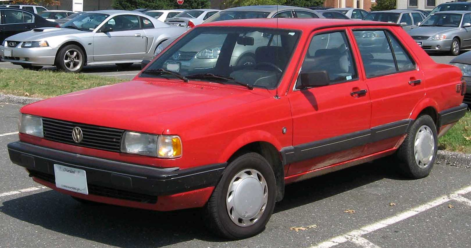 Volkswagen Fox photographed in College Park, Maryland, USA.